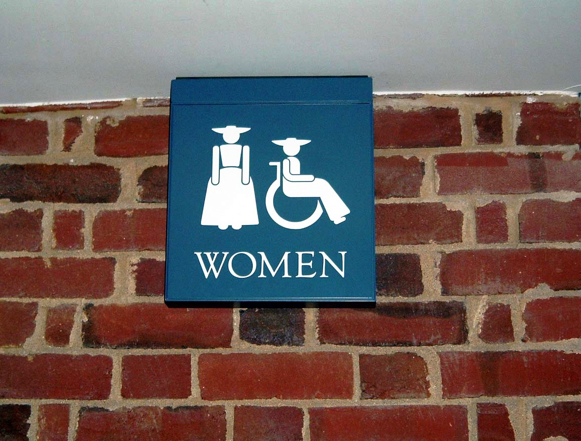 Bathroom signs at the Colonial Williamsburg visitor center keep up the facade of going back in time.